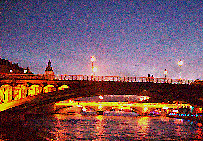 Impressionist style photo-painting of Seine bridges.